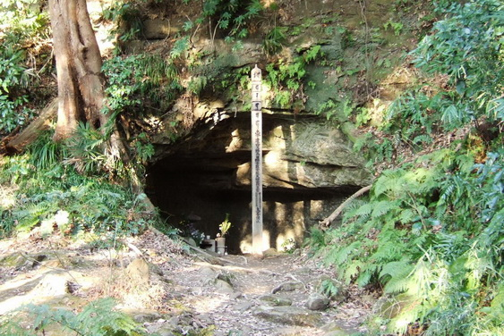 The Hōjō Takatoki Harakiri Yagura where, according to tradition, one of the last Hōjō regents disemboweled himself